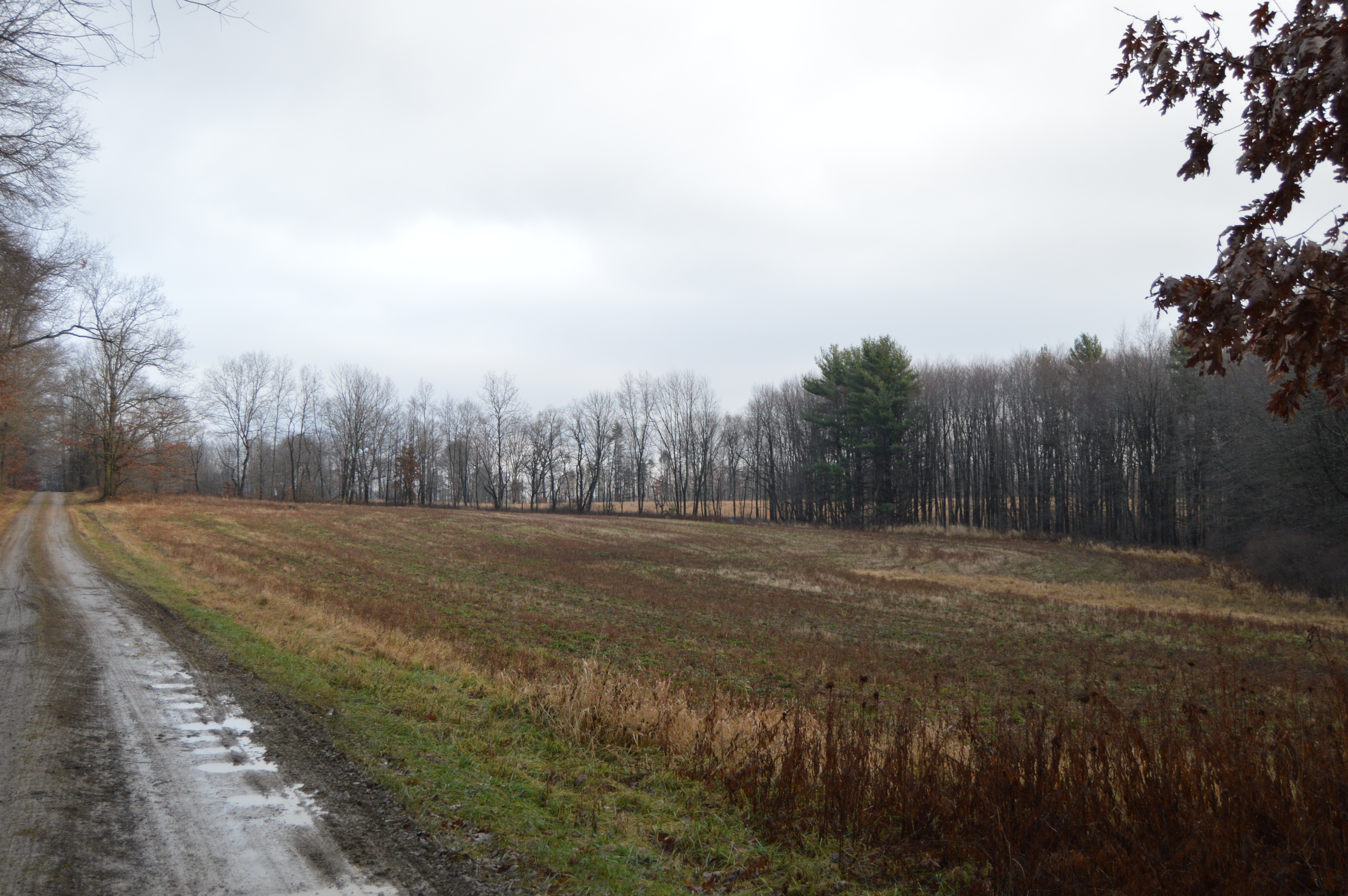 A field on the southern side of Martin Road, located north of Shippenville in Elk Township, Clarion County, Pennsylvania, United States.